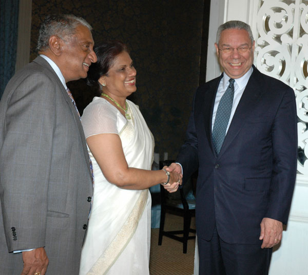 Former Sri Lankan President Chandrika Kumaratunga (center) with former United States Secretary of State Colin Powell